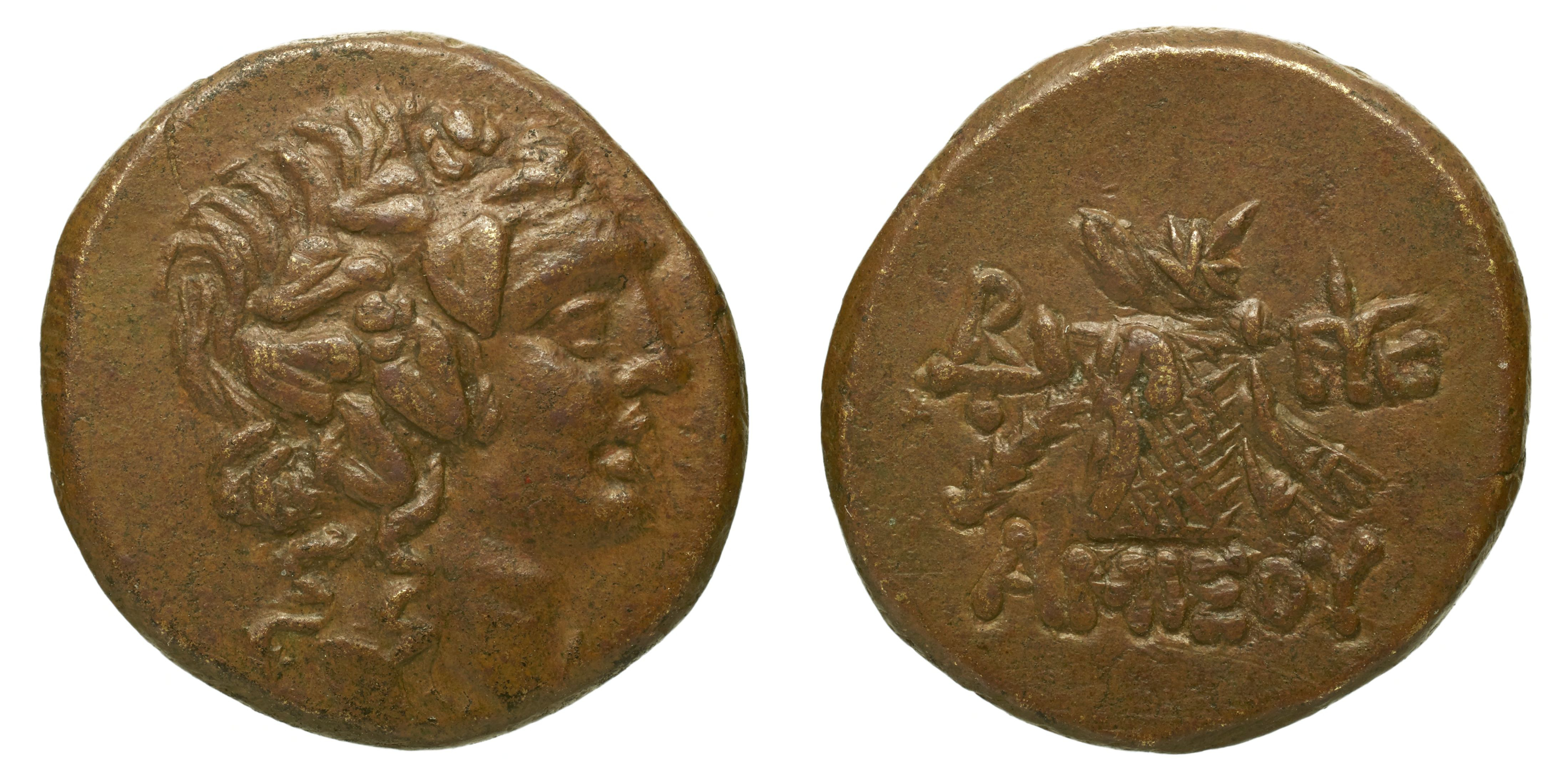 Bronze coin, Amisos in Pontus, 85-65 BCE, 7,92 g, both side. Previous owner: Seymour de Ricci (1881-1942).